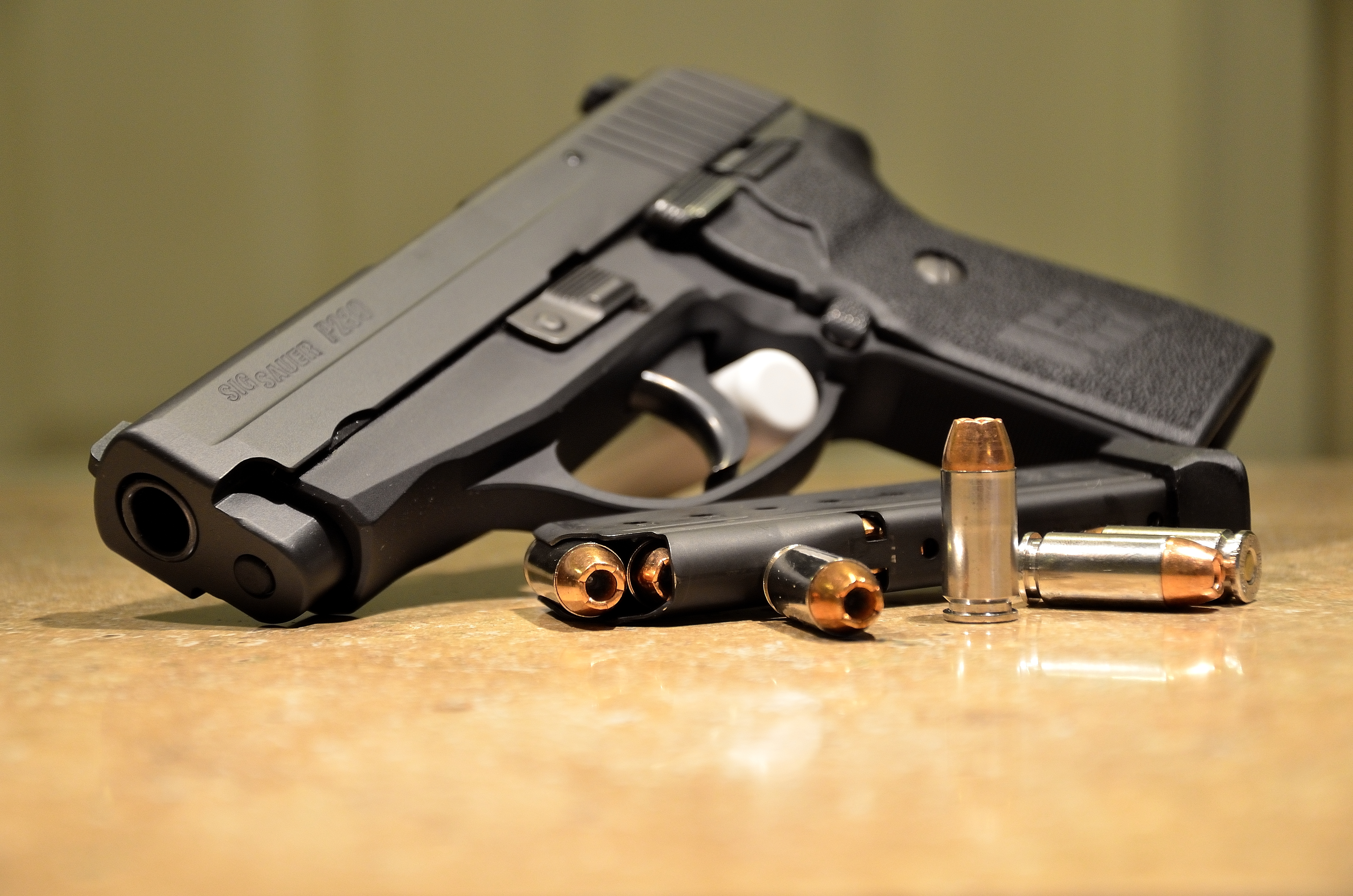 .40 Sig Sauer P239, magazine and 165 grain Winchester Ranger centerfire handgun cartridges